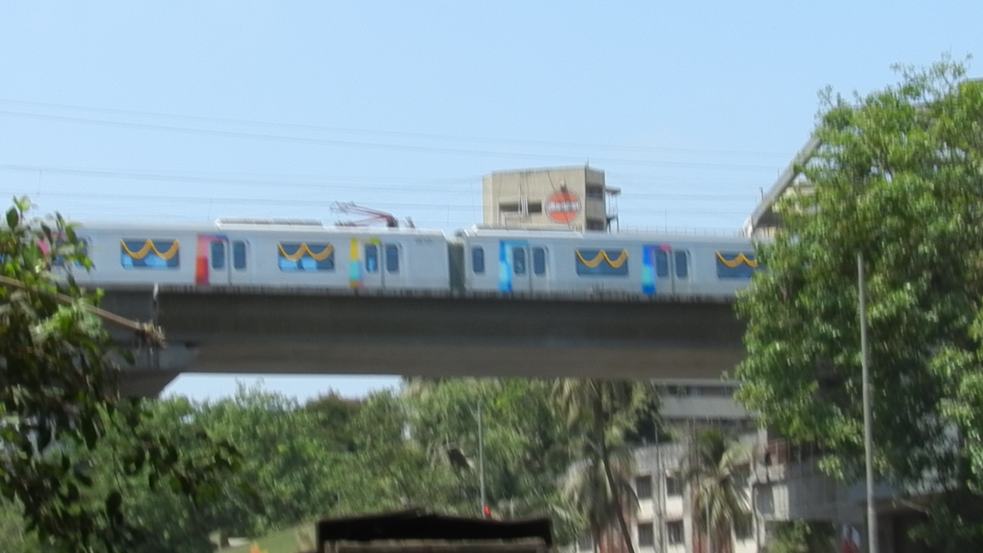 on 1st May 2013 Chief Minister of Maharashtra Prithviraj Chavan flagged off trial run of Mumbai Metros First phase. This image was take when the Final trial run before the arrival of CM. During this trial no VIPs were present